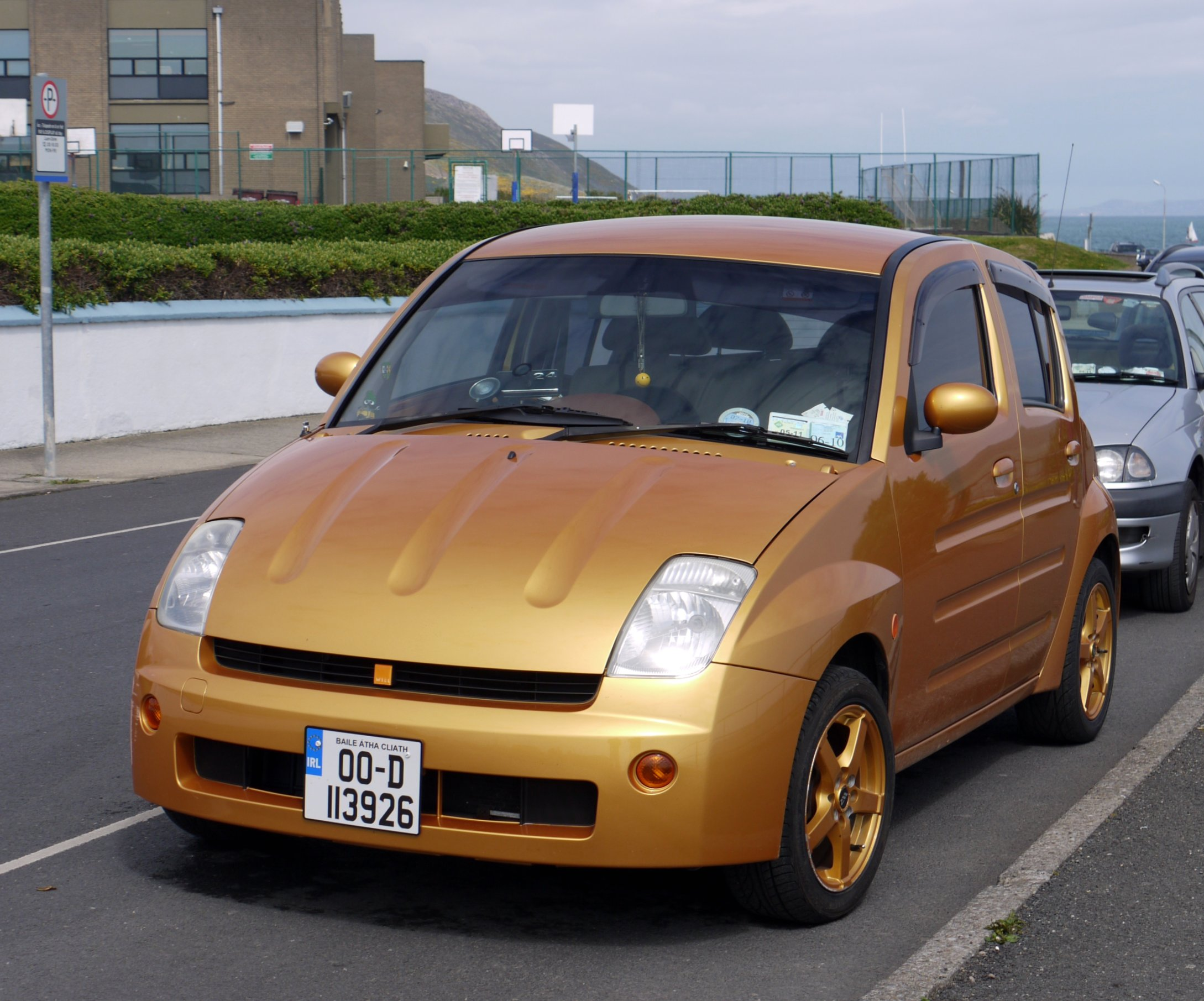 2000 Toyota WiLL Vi "The Toyota WiLL Vi is a compact car, with distinctive styling combining elements of many cars. The bonnet and headlights seem to have prefigured the Citroen C2, while the reverse-slope rear window is reminiscent of cars from the 1960s such as the 105E Ford Anglia and the Citroen Ami 6, and the curvy styling of the roof and boot are similar to the Renault 4CV. The car features column shift automatic and a split bench seat in the front, centrally-mounted instruments and the 1,300 cc 2NZ engine from the Vitz/Yaris on which it is based."